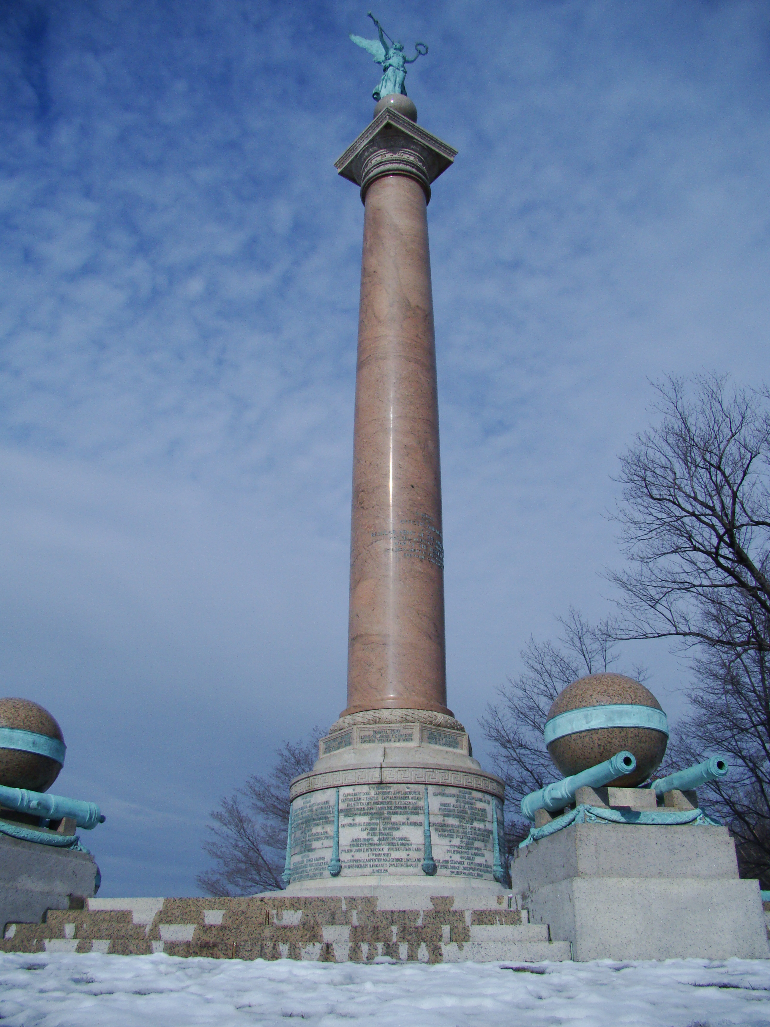 Battle Monument at West Point, 2 Feb 2009